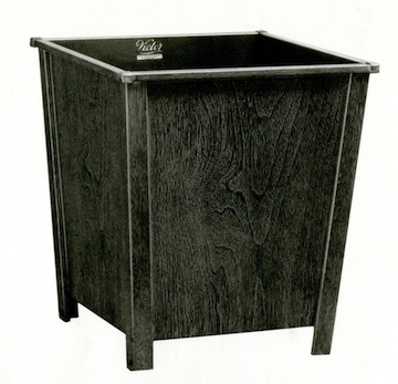 1919 promotional photo of Steelcase's Victor wastebasket.